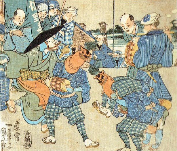 Oman ga Ame(Oman:candy peddler) by Tousei Ryuukou Mitate. Painted by Kuniyoshi Utagawa.